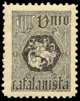 A stamp issued by Catalonian separatists, 1899, Spain.